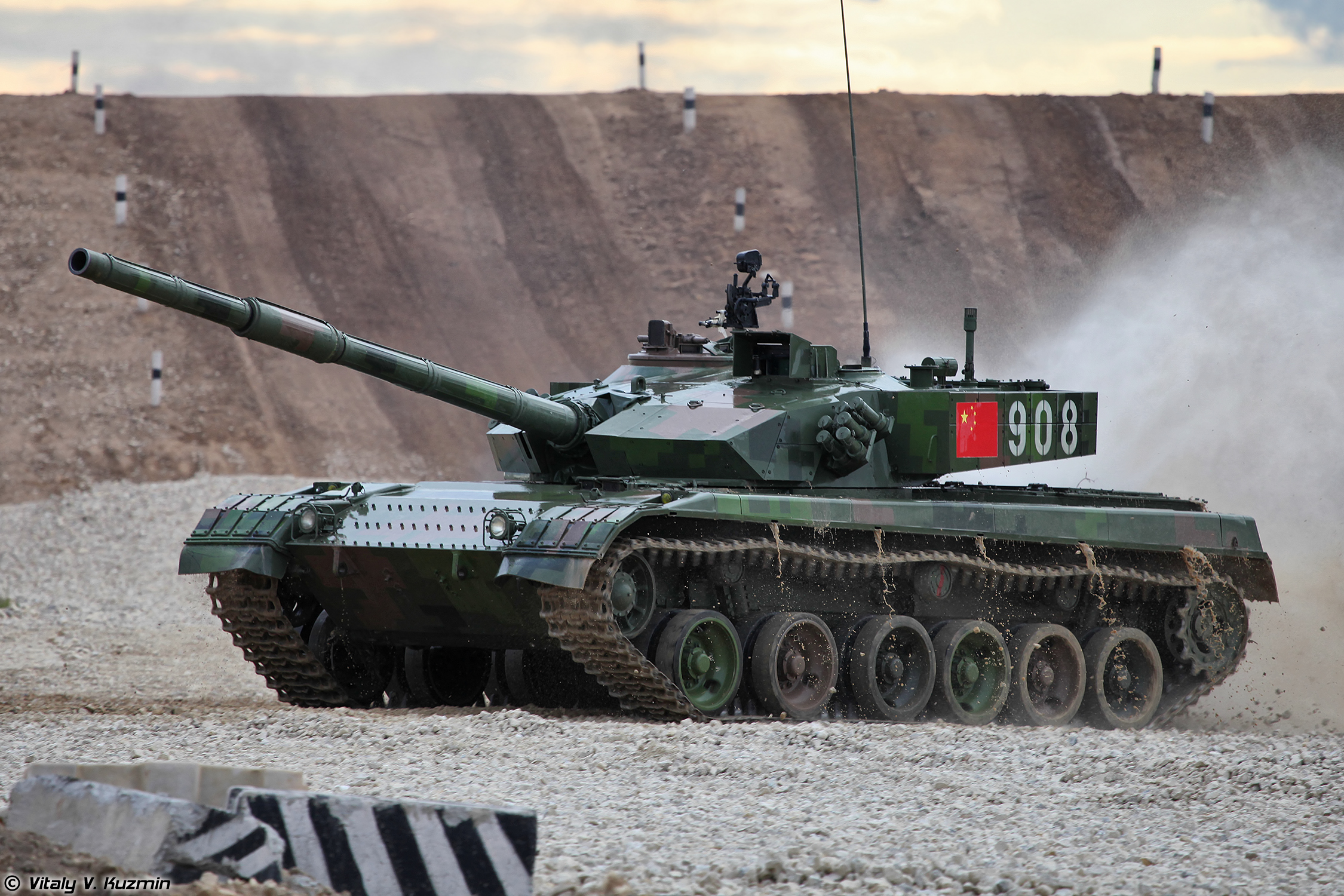 Type 96A1